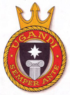 coat of arms of EML Ugandi